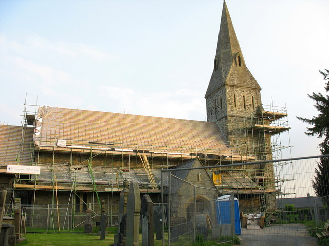 The re-roofing of Eglwys Crist/Christ Church This 1858 church is undergoing thorough renovation in order to create 'a modern 21st century place of worship'. In the interim services have been held at the church school and at the White Lion Hotel in the High Street.